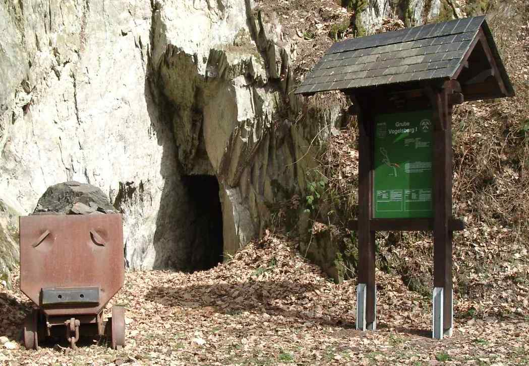 The Fell Exhibition Slate Mine is a former slate mine in Germany located about 20 km east from Trier (Germany) next to the villages Fell and Thomm. The Exhibition Mine consists of two typical roof slate mines from the turn of the century, situated one above the other, a slate mining trail and a small mining museum. [2]